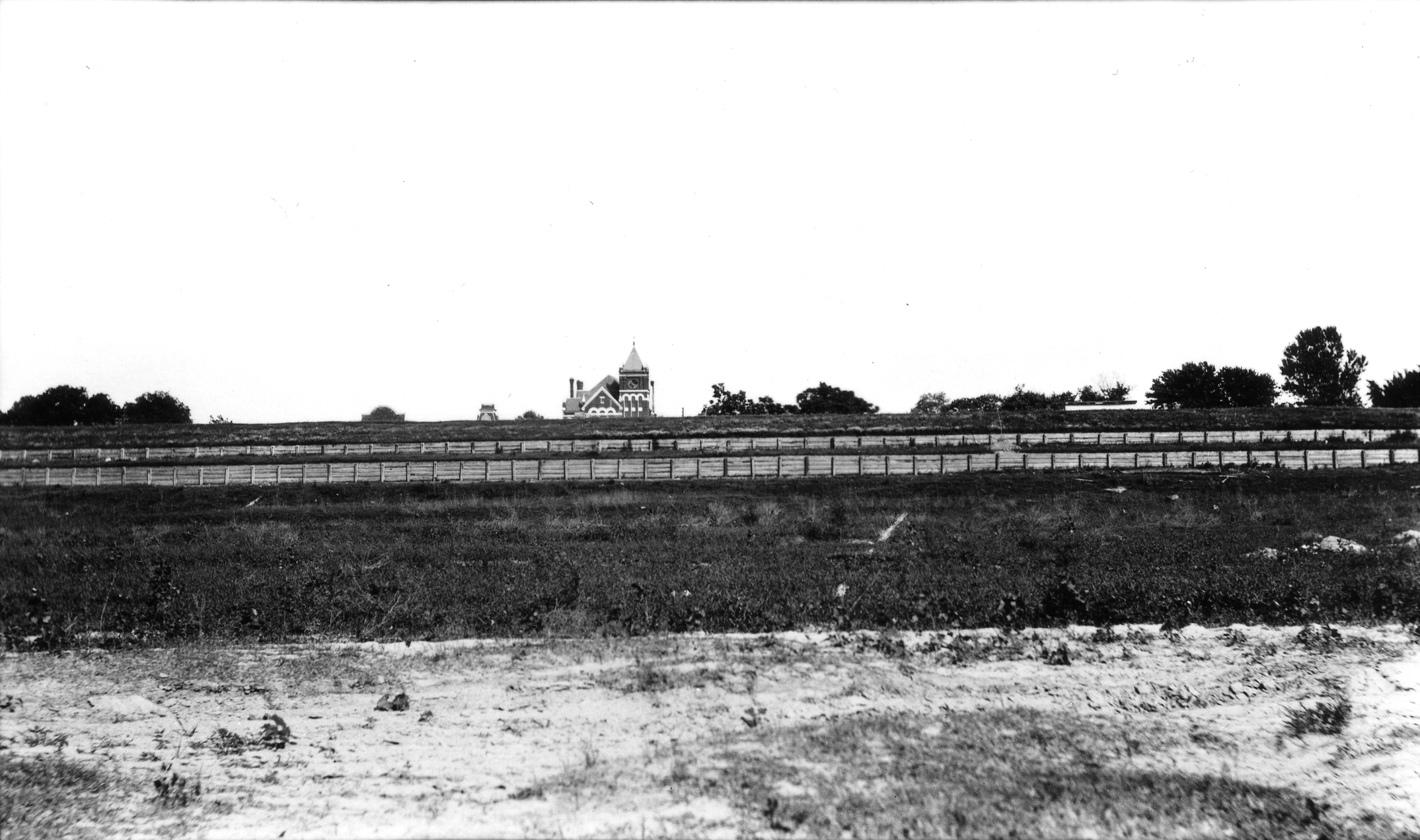 Collection: Painter (Milton McFarland, Sr.) Collection Call Number: PI/1988.0006/Box 557 Folder 1 System ID: 97312. Link to the catalog From Front of Friar's Point Showing Levee. Please see our profile page for information on ordering. Scanned as tiff in 2008/03/03 by MDAH. Credit: Courtesy of the Mississippi Department of Archives and History